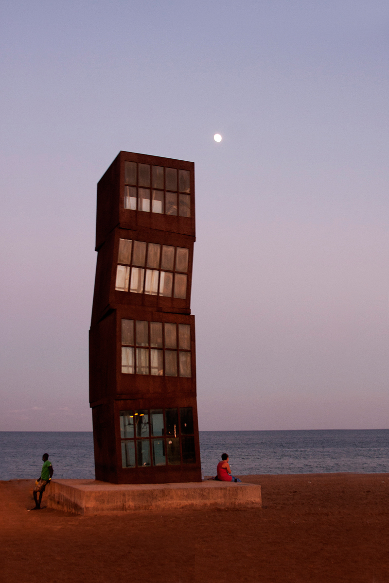 Rzeźba